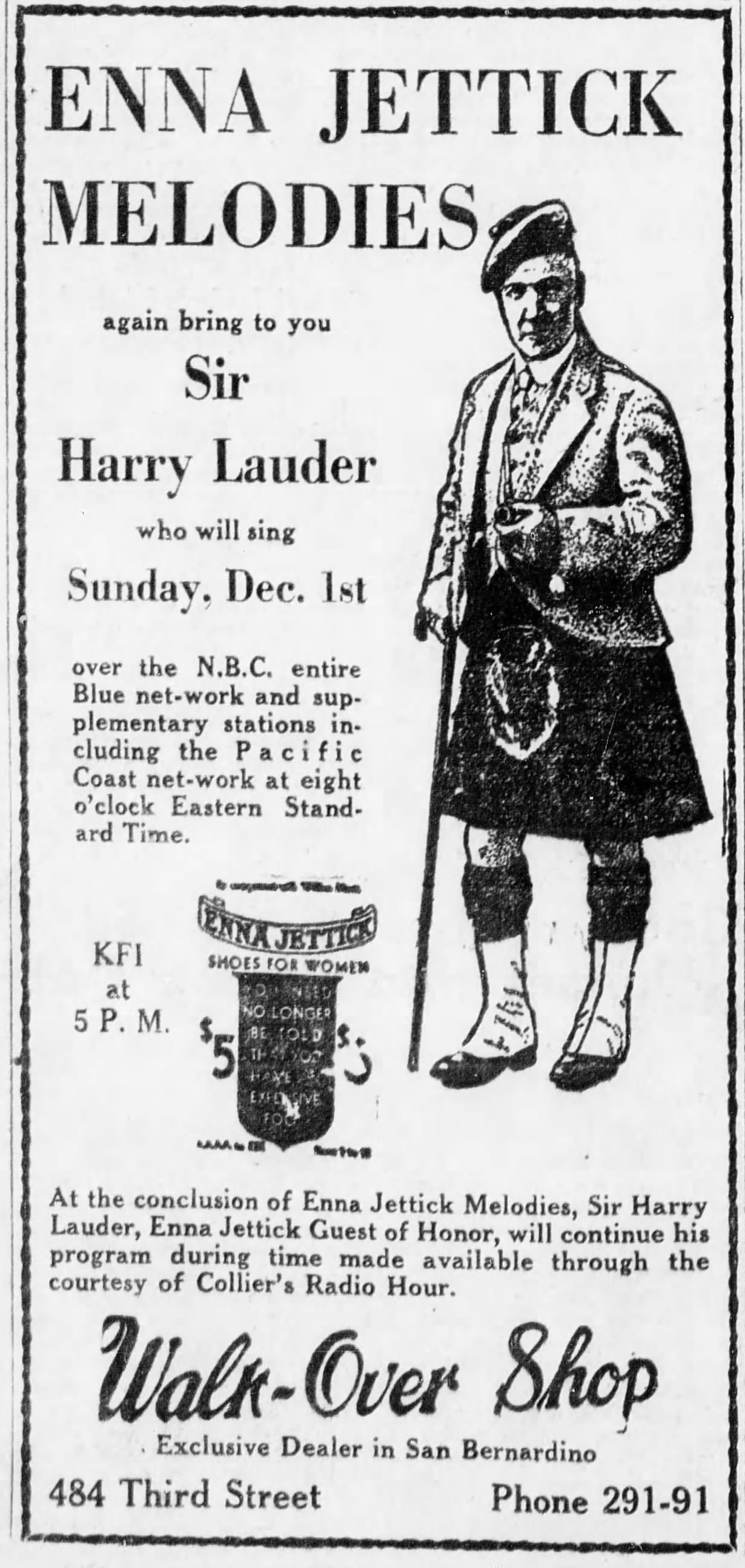 Ad for Harry Lauder's NBC performance on December 1, 1929, which was sponsored by the Enna Jetticks shoe brand. The Walk-Over Shop was a San Bernadino, California shoe store that carried the brand.